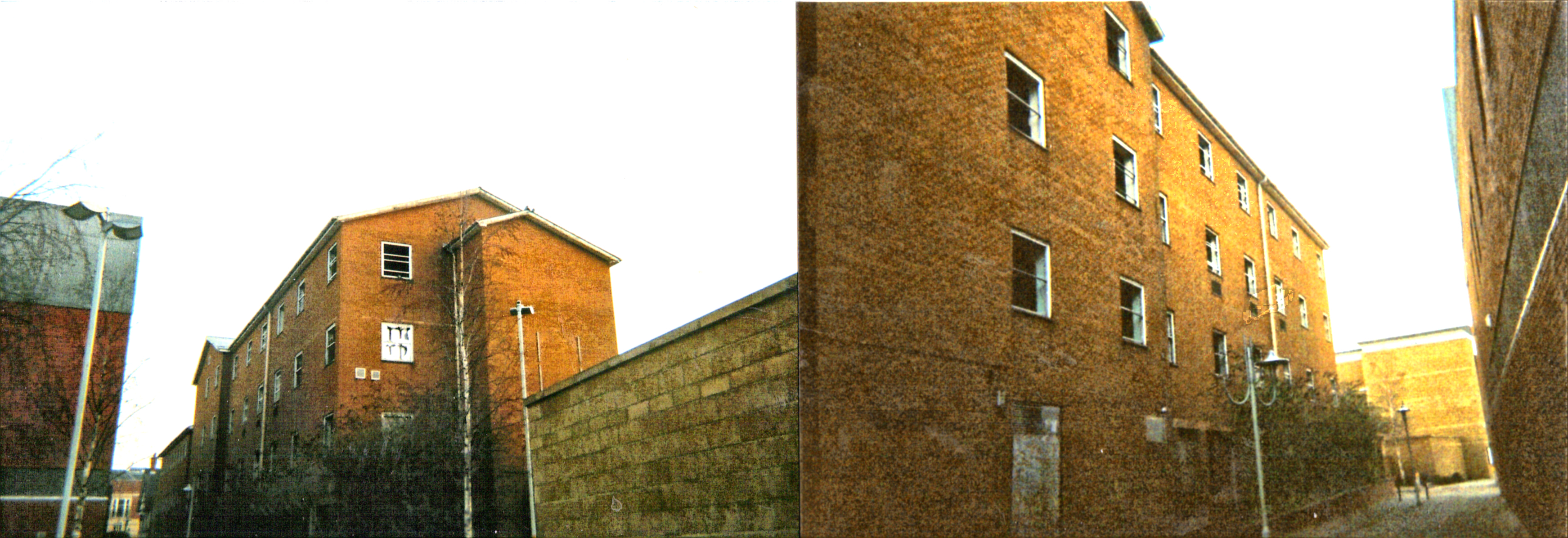 Banbury's former Crest Hotels building lay derelict long before I took its picture in 2011.